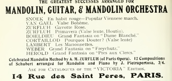 Sheet music from 1914, advertising arrangement by Jean Pietrapertosa and A. M. Zurfluh (of the Paris Opera).